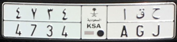 Saudi Arabia license plate 2014 European size